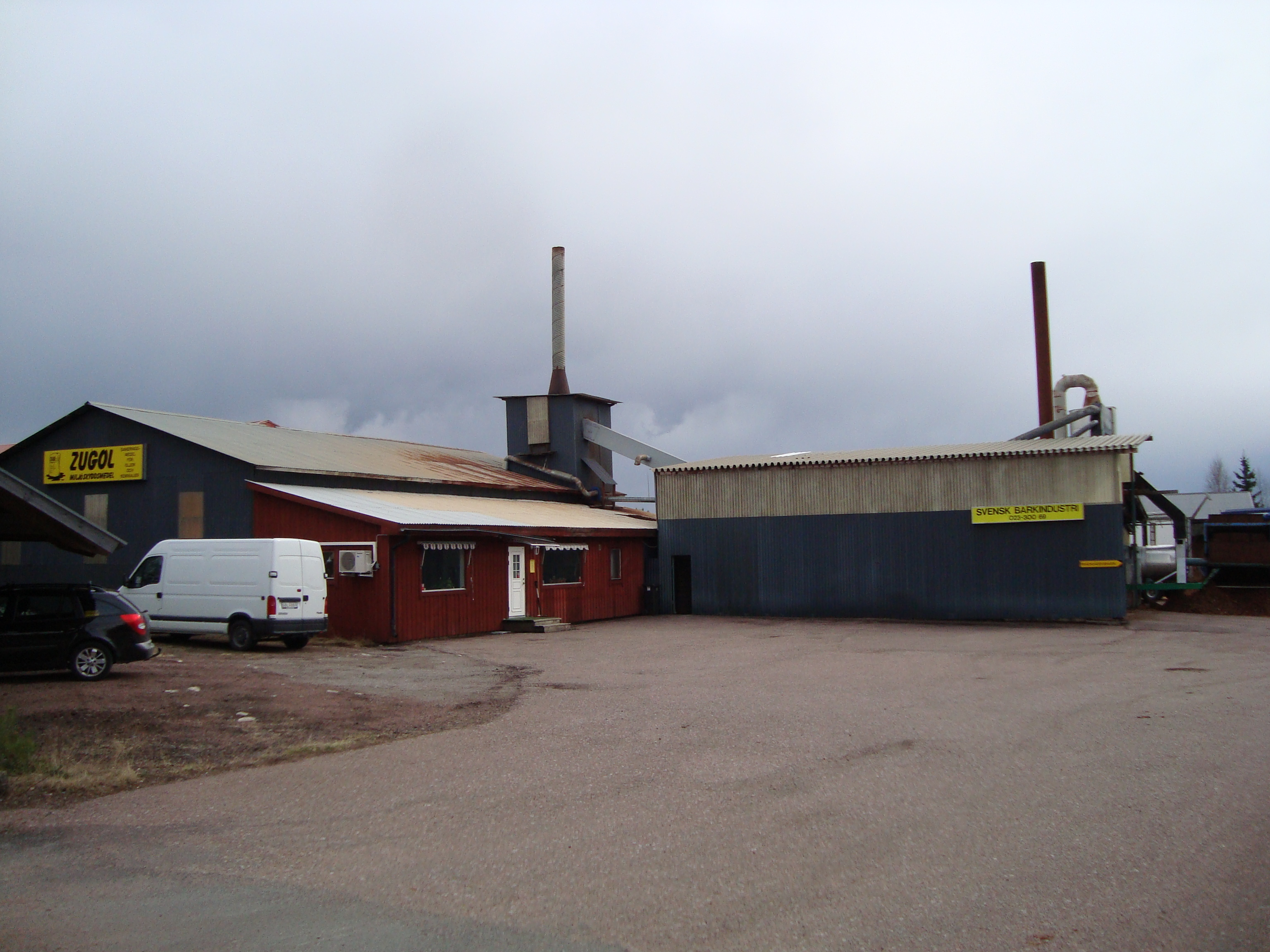 Svensk Barkindustri, Österå, Falun Municipality, Sweden